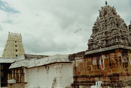 Lower (Diguva) Ahobilam Temple, Kurnool district